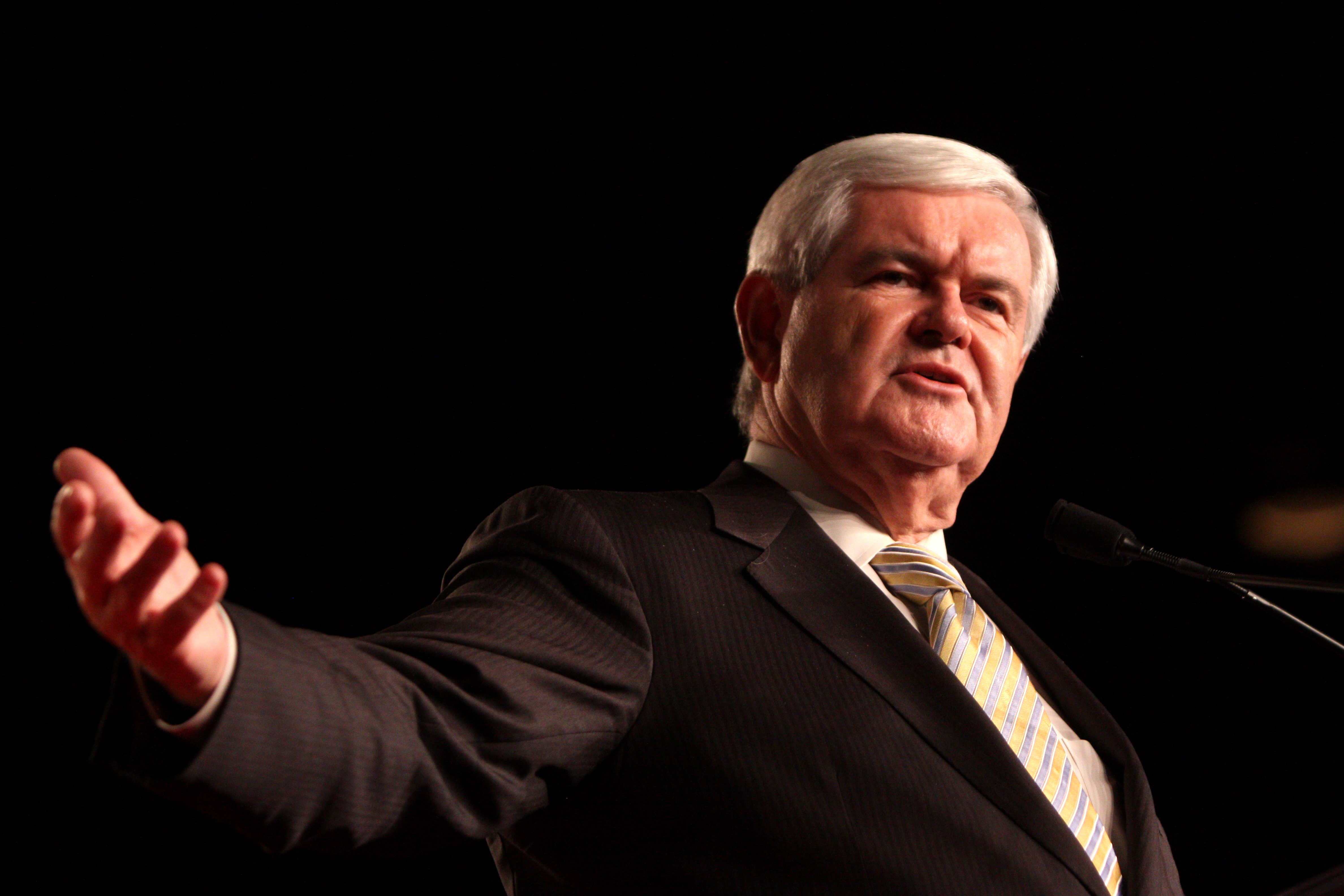 Newt Gingrich at a political conference in Orlando, Florida.